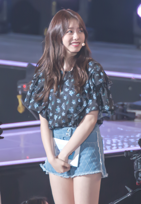 Sohye at the Overwatch Summer Hit event on July 22, 2017